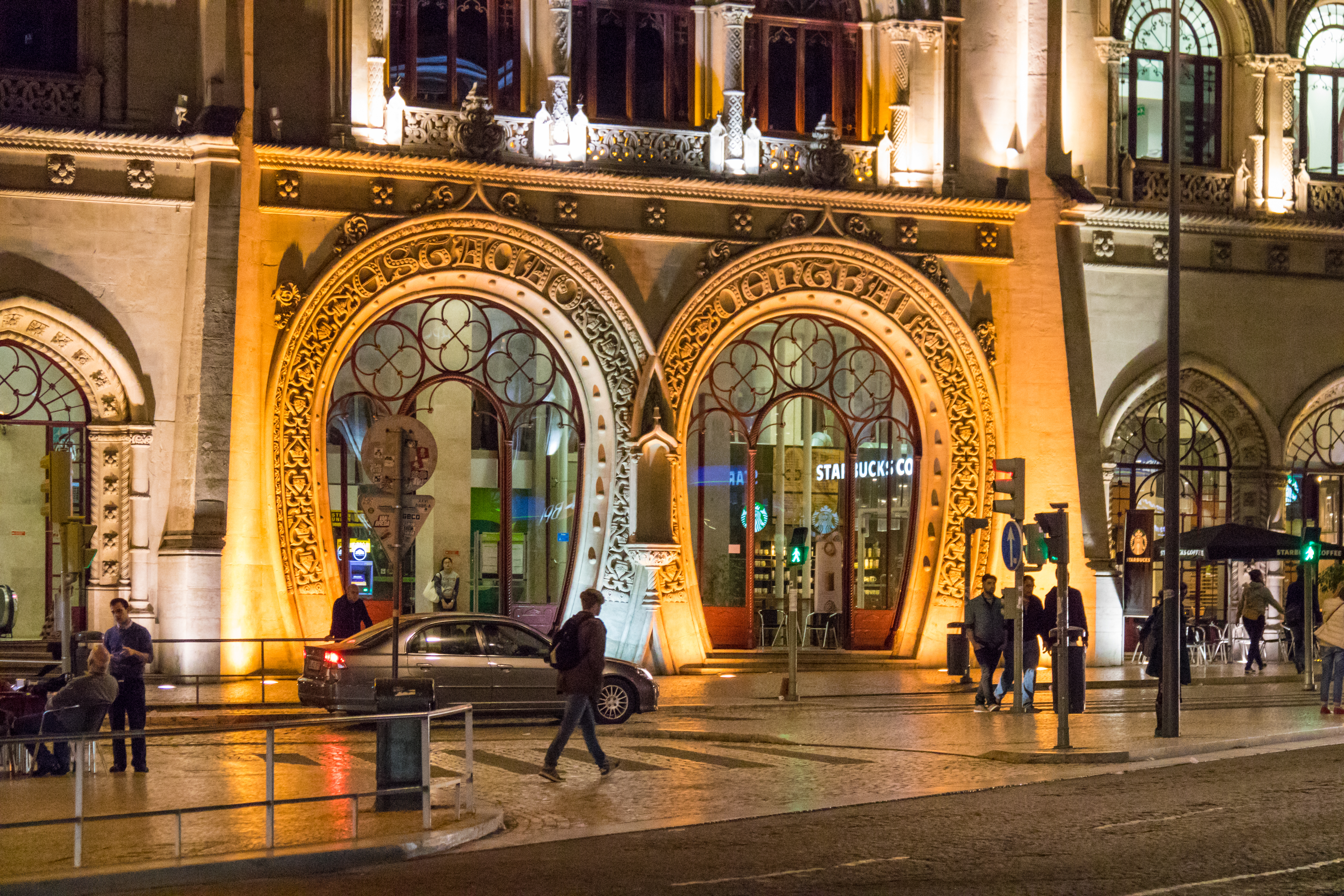 Rossio train station at night, Lisbon, Portugal